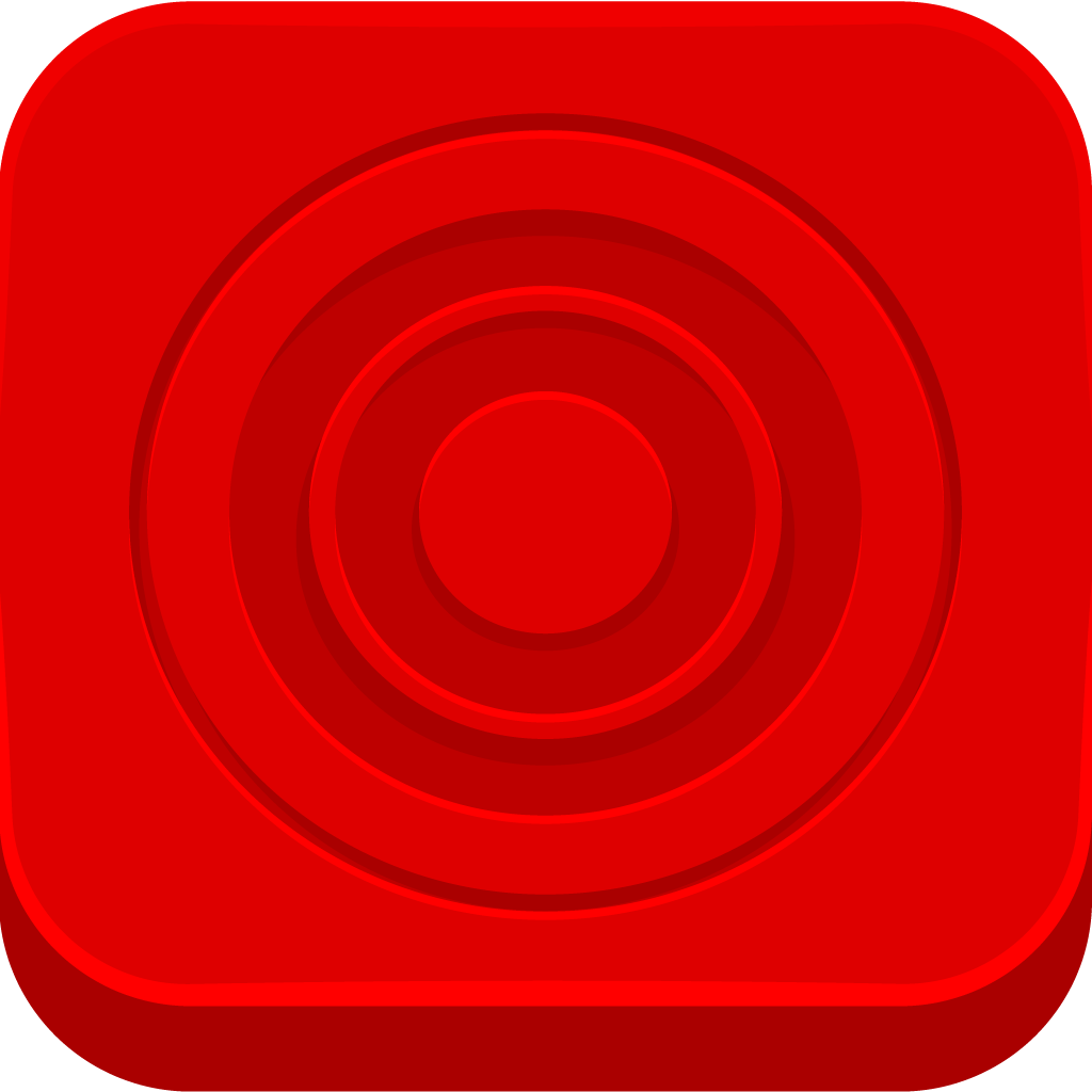 Hundreds app icon with rounded corners